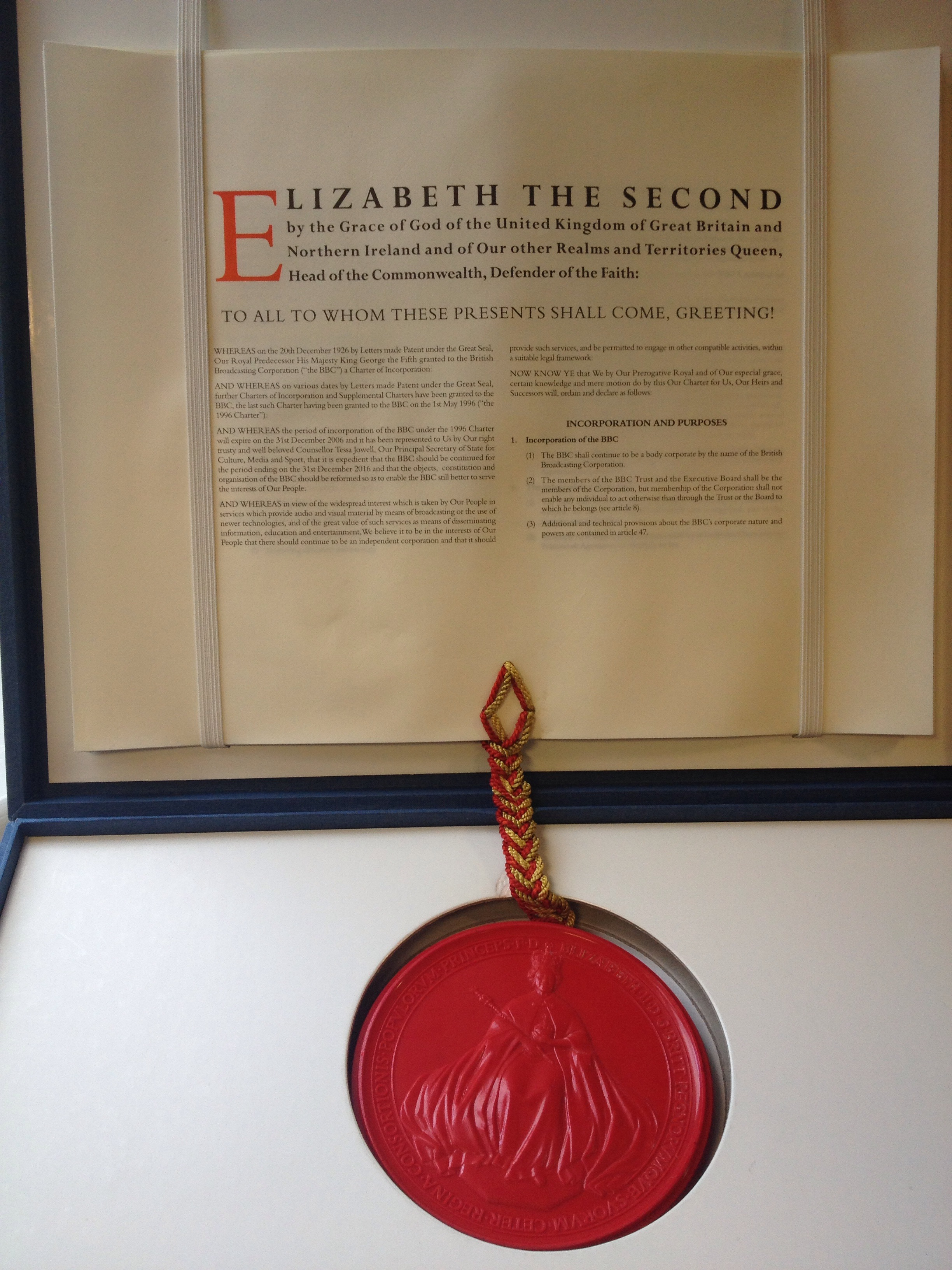 A photograph of the BBC's royal charter, held at the BBC Written Archives Centre in Caversham, Berkshire